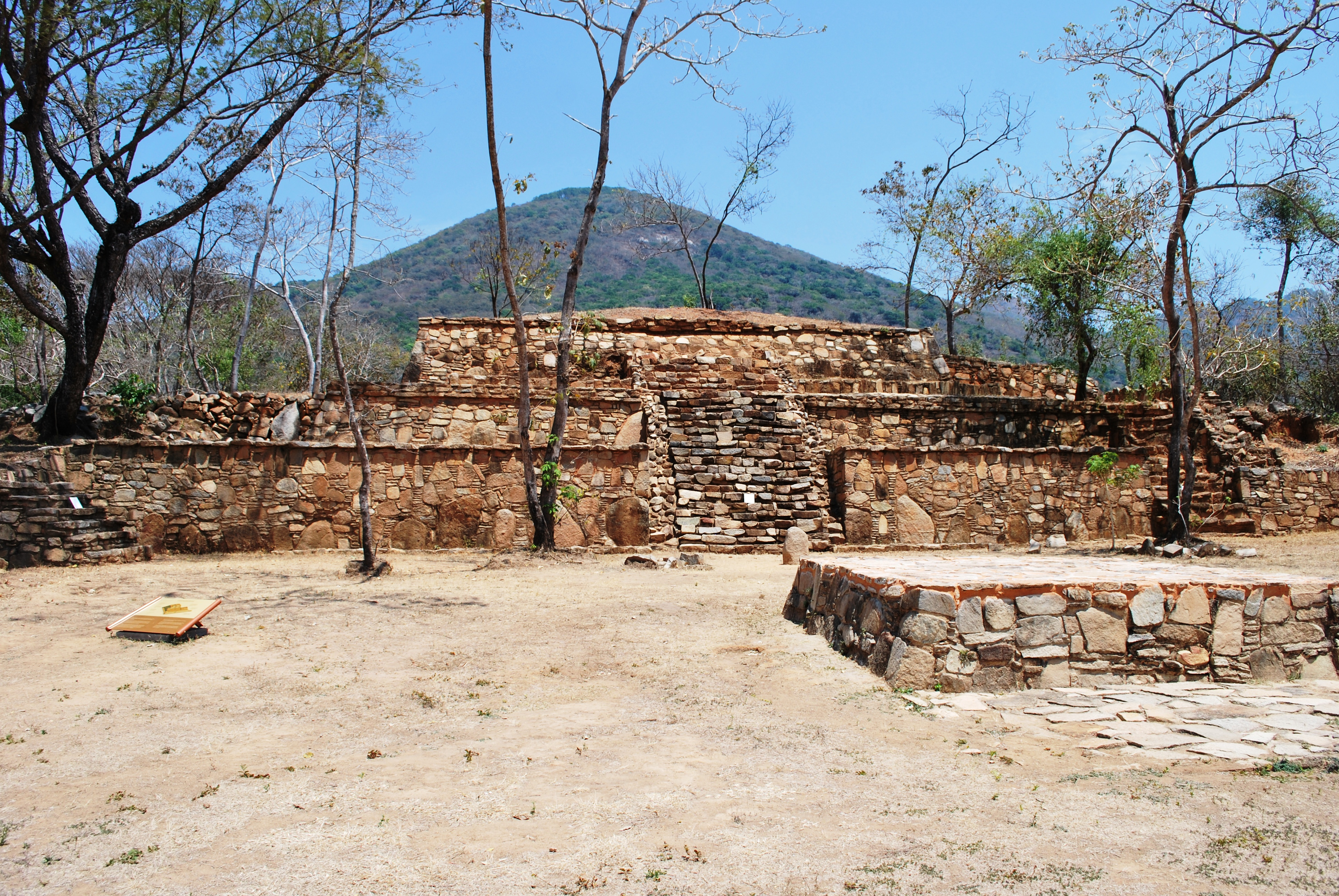 Palace at Tehuacalco